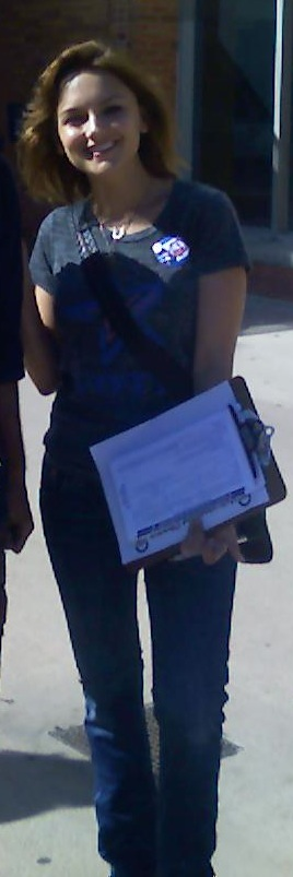 Picture of Rachael Leigh Cook taken at Drexel University.